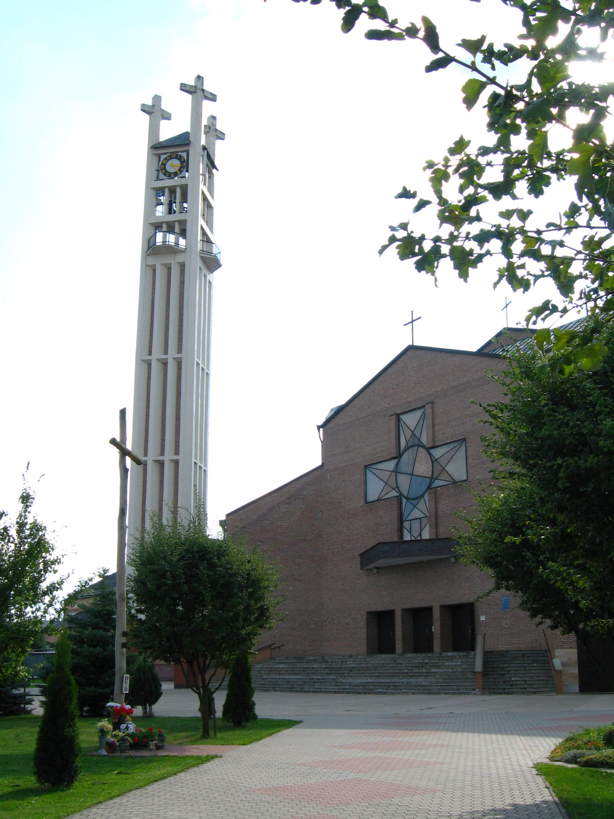 Roman–catholic church of Holy Cross, from 1989